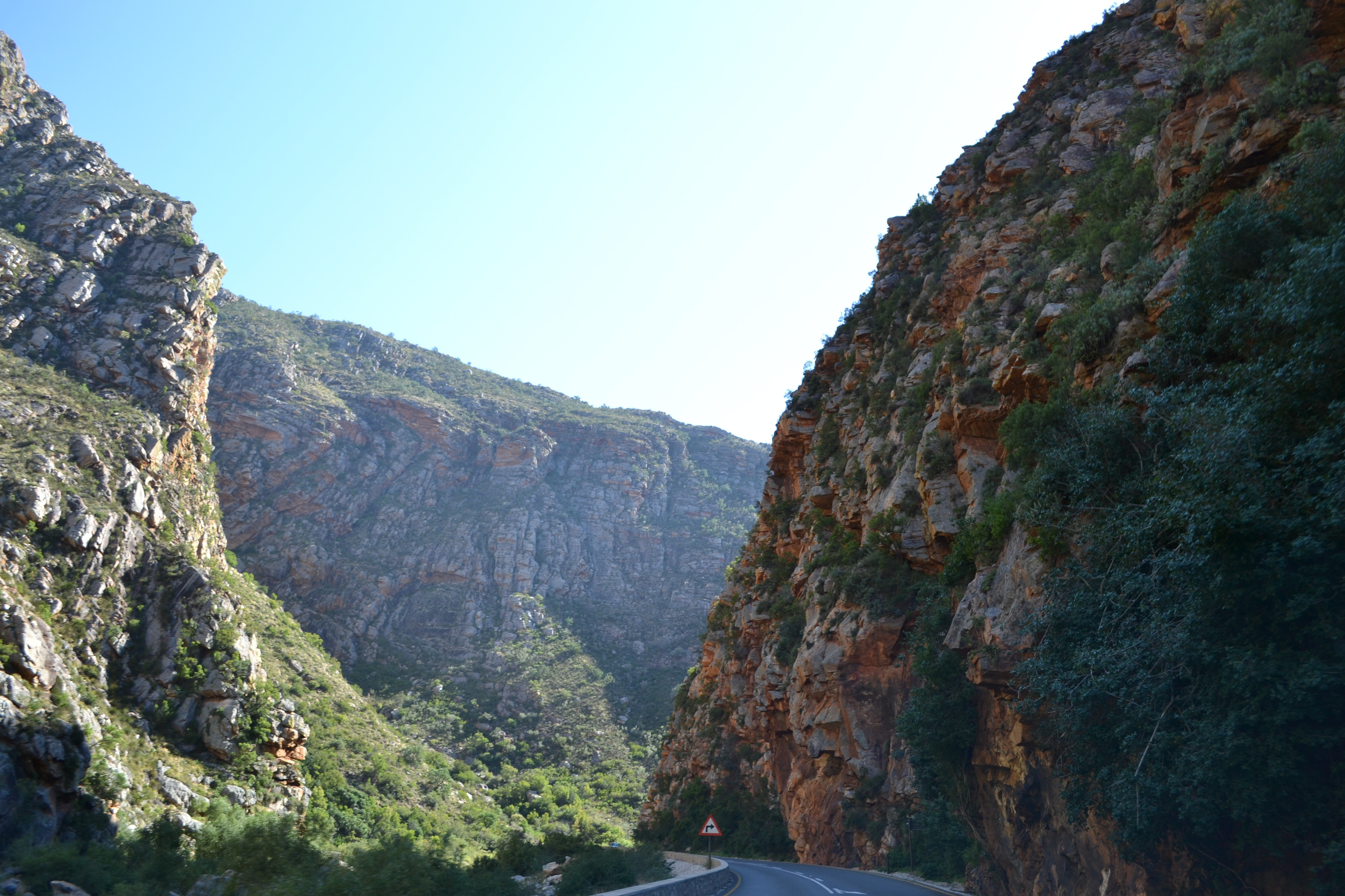 Meiringspoort between de Rust and Klaarstroom. First road was built between 1856 and 1858. Western Cape.